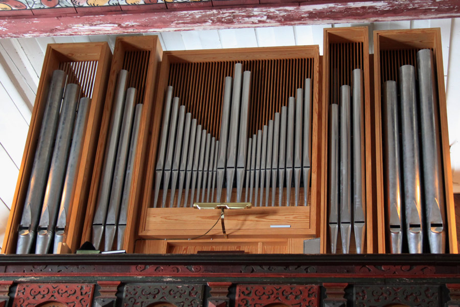 Organ in Røldal church